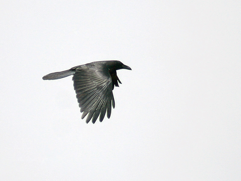 Large-billed Crow (Corvus macrorhynchos) in Kullu District of Himachal Pradesh, India.